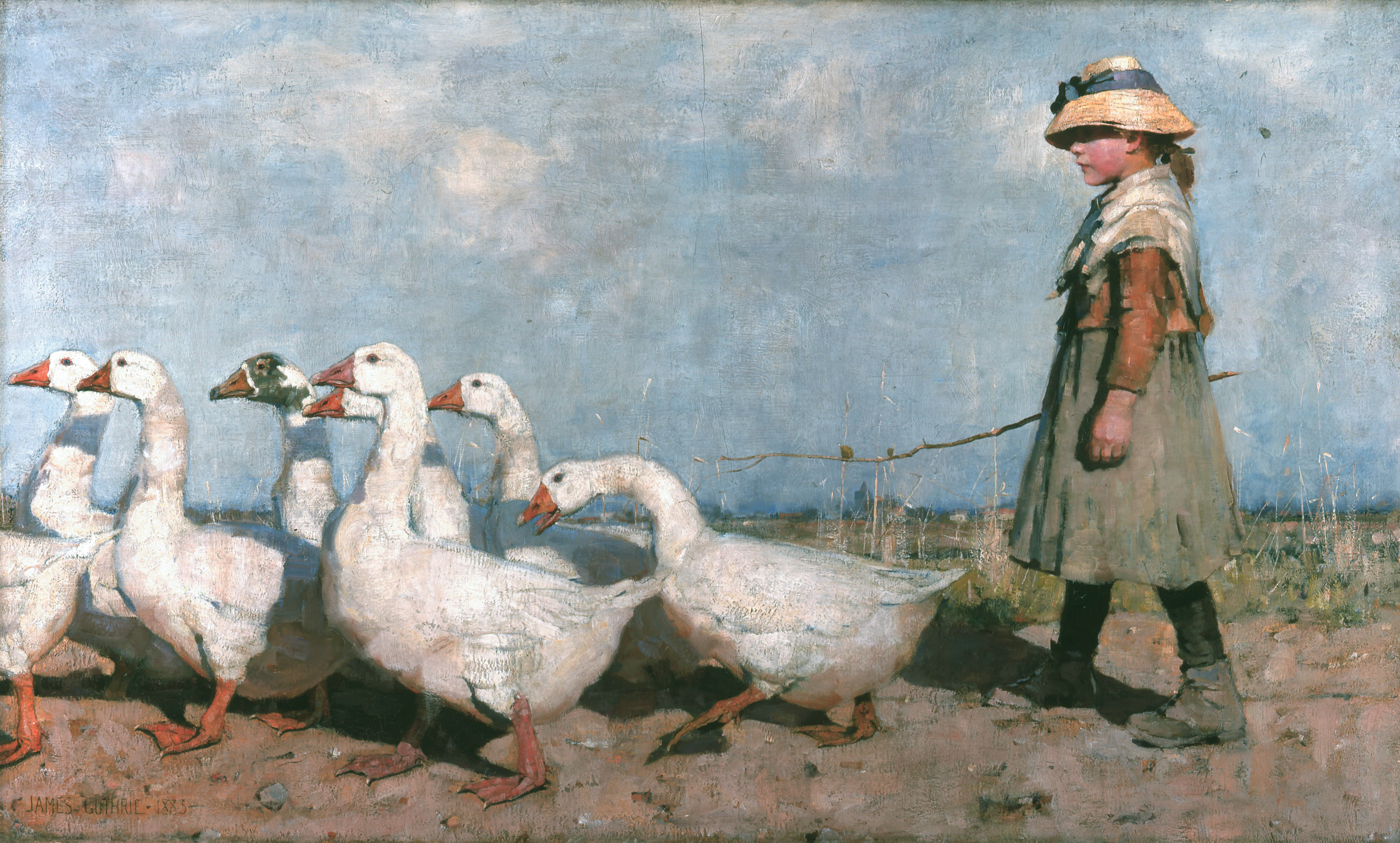 To pastures new oil on canvas 92 × 152.3 cm signed b.l.: James Guthrie - 1883